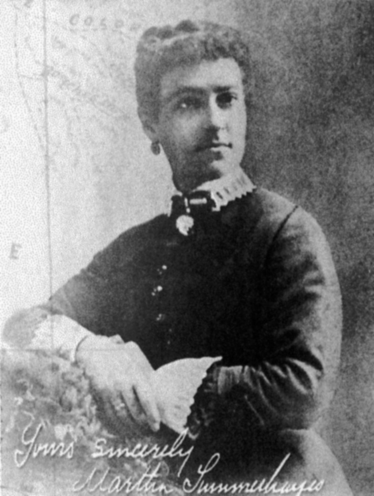 Martha Summerhayes (1844–1926), US author